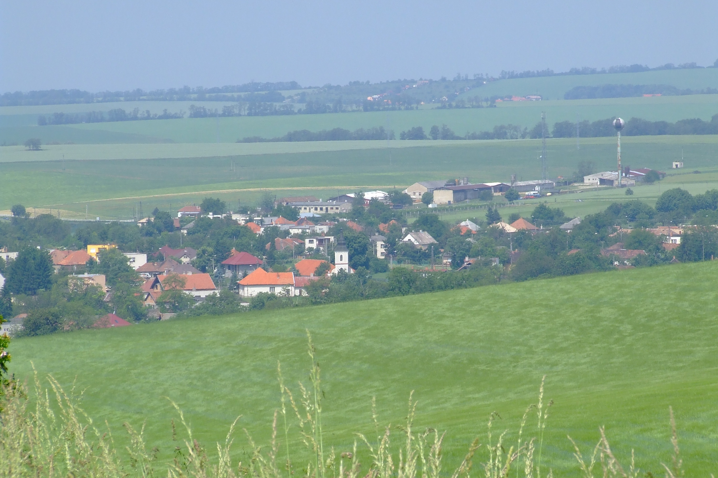 Pozba